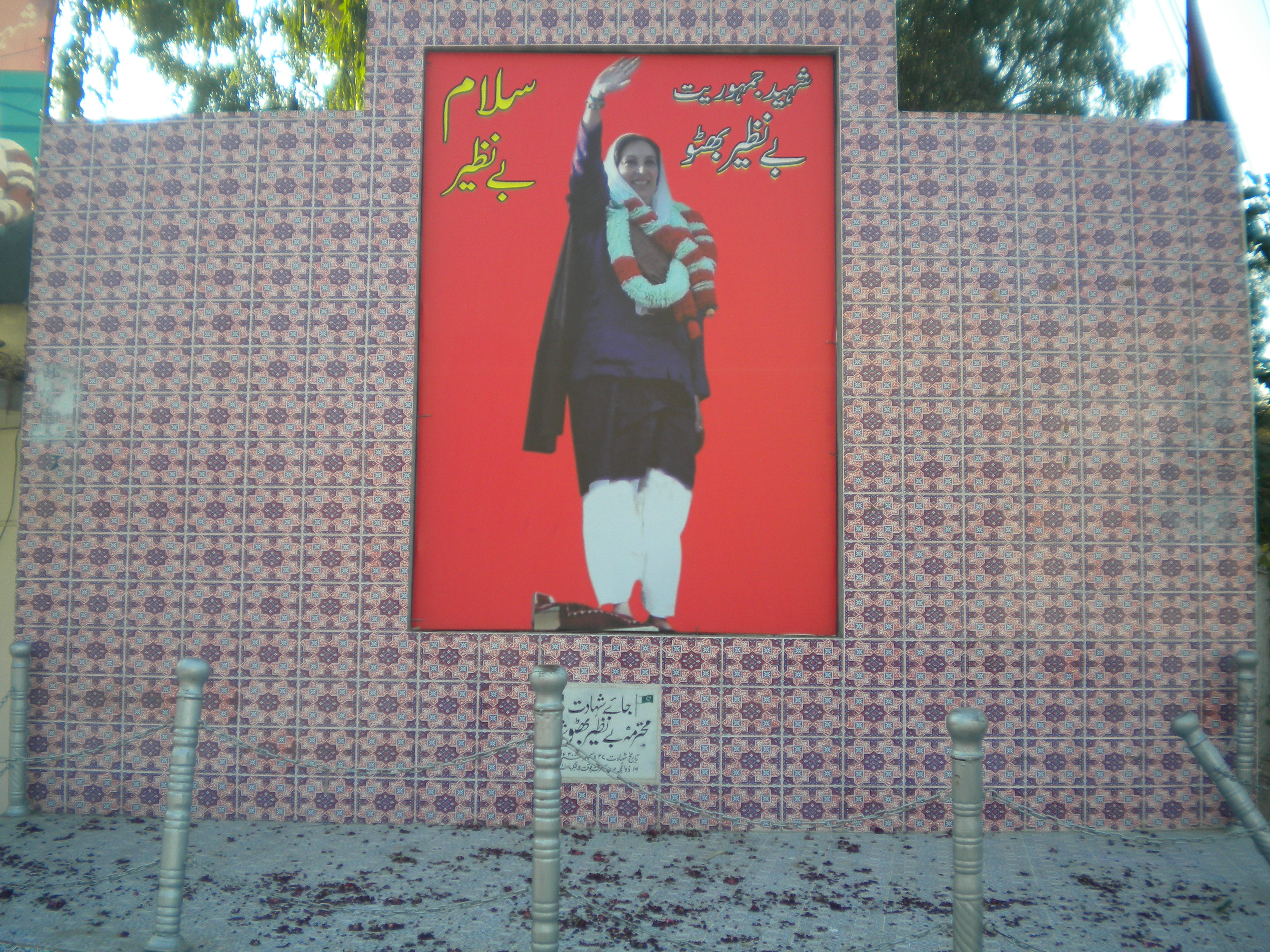 Place where Benazir Bhutto died